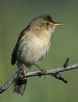 Acrocephalus palustris Description:Acrocephalus palustris, PolandAuthor:Marek SzczepanekLicense:GFDL